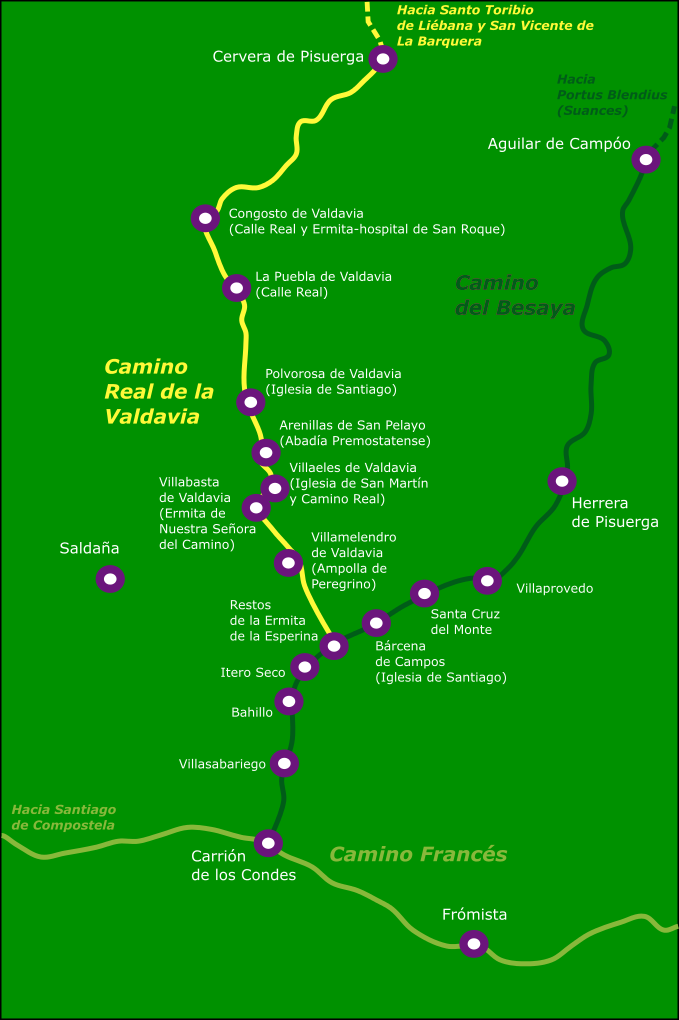 Pilgrims' road of Camino Real de la Valdavia and its cross with Pilgrims' road of Besaya.